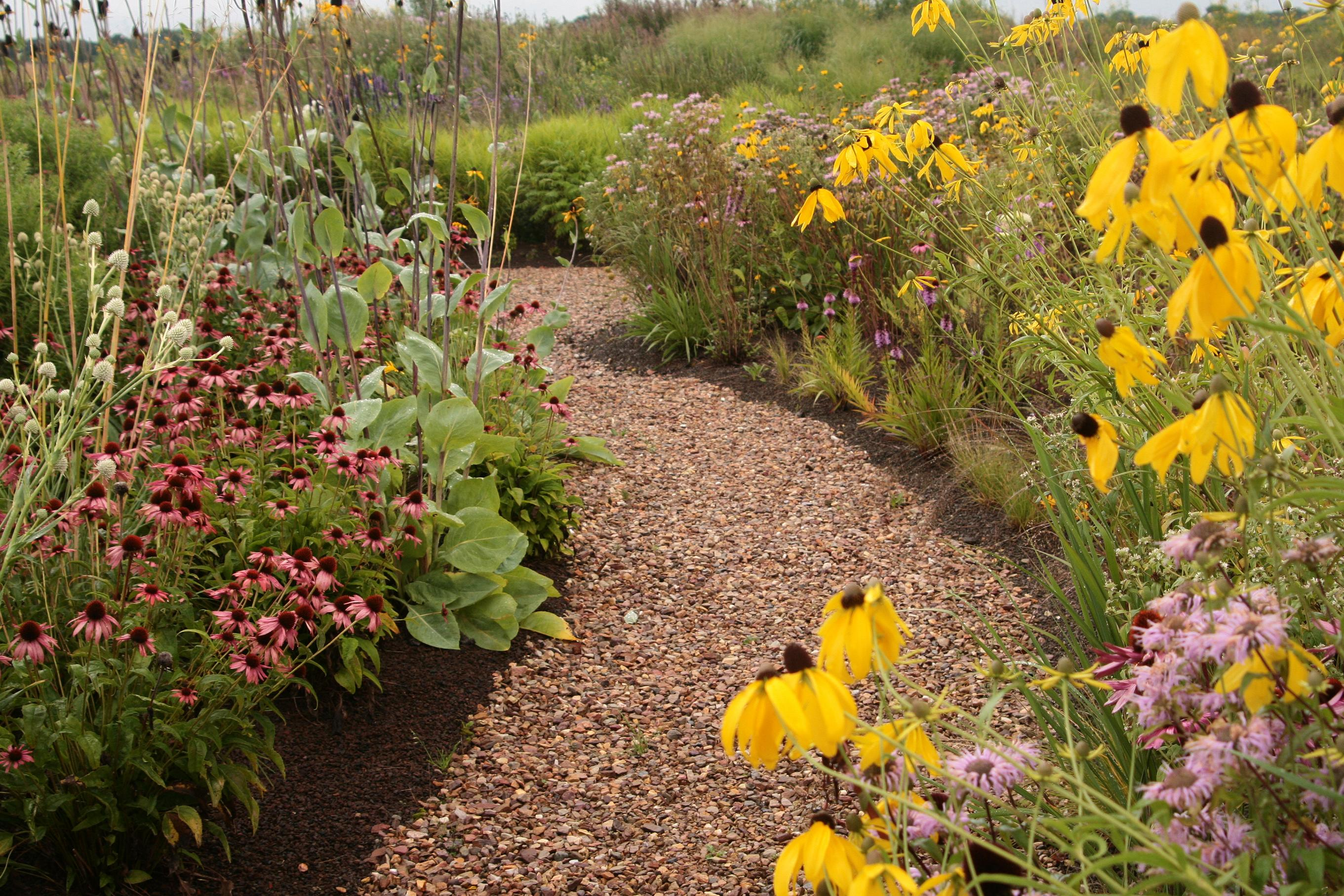 prairiegarden